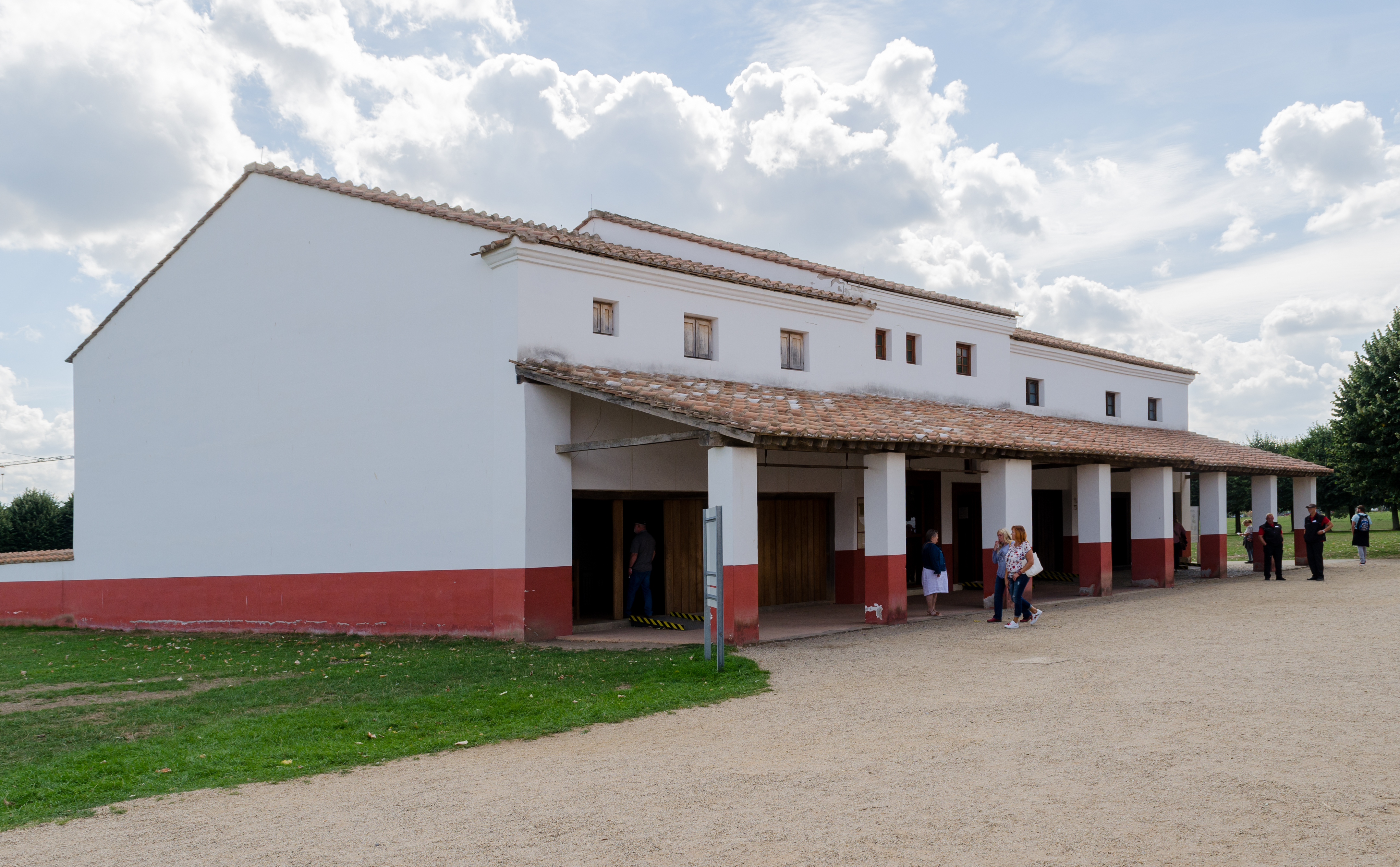 Xanten (North Rhine-Westphalia, Germany) – Archaeological Park – reconstructed craftsman's houses in the ancient Roman settlement Colonia Ulpia Traiana